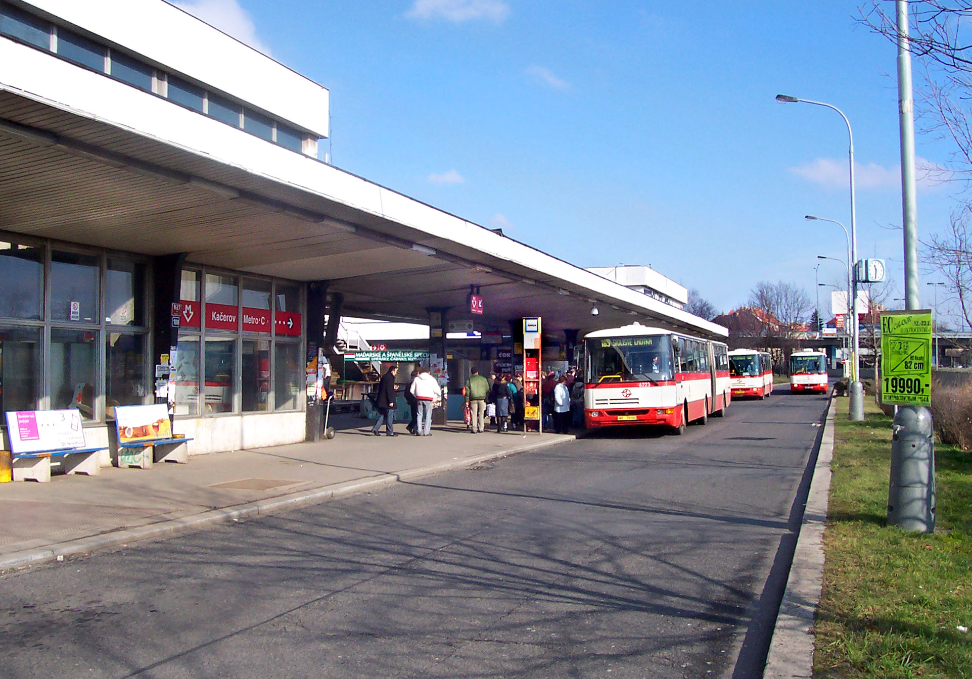 Underground station Kačerov, Prague